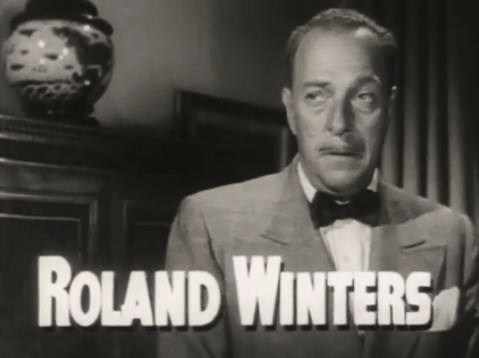 Roland Winters in A Dangerous Profession - trailer (cropped screenshot)